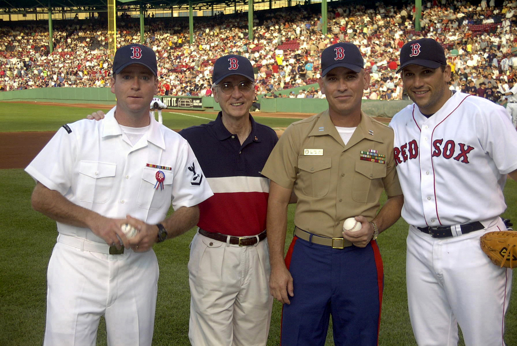 Boston, MA (Jul. 3, 2002) -- (From left) Torpedoman's Mate 3rd Class Brian Ryan, Secretary of the Navy Gordon England, U.S. Marine Captain Israel Garcia, and Boston Red Sox catcher Doug Mirabelli pose in Boston's Fenway Park before a Red Sox game at which Captain Garcia and Petty Officer Ryan threw out the ceremonial first pitch. U.S. Navy photo by Journalist Seaman Joe Burgess. (RELEASED)